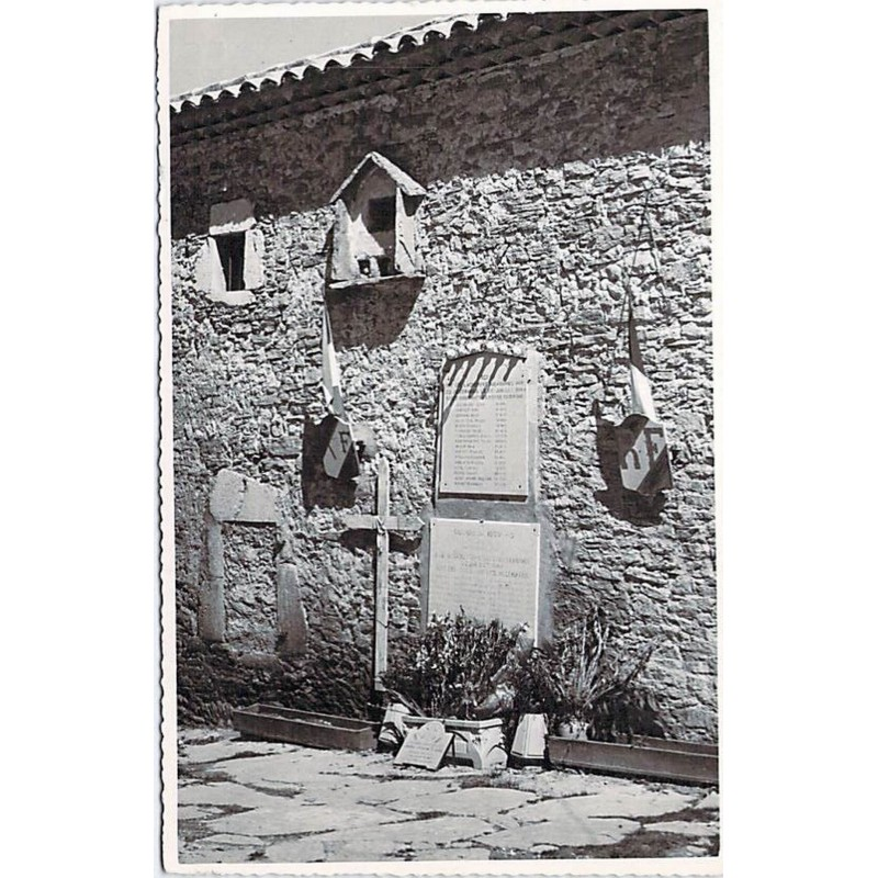 old postcard of the execution wall of La Chapelle-en-Vercors